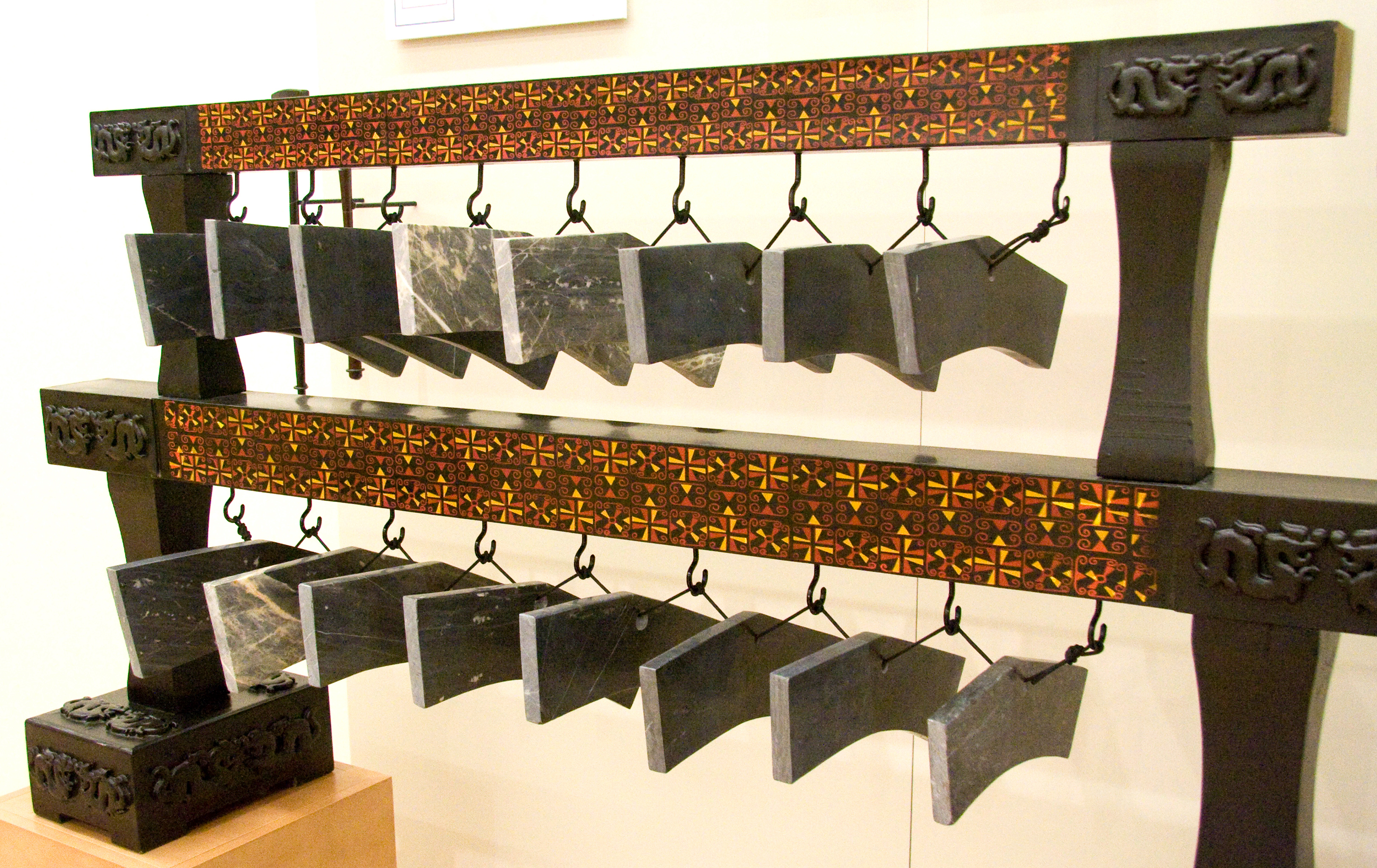 Chinese style gong chimes, Musical Instrument Museum, Phoenix, Arizona